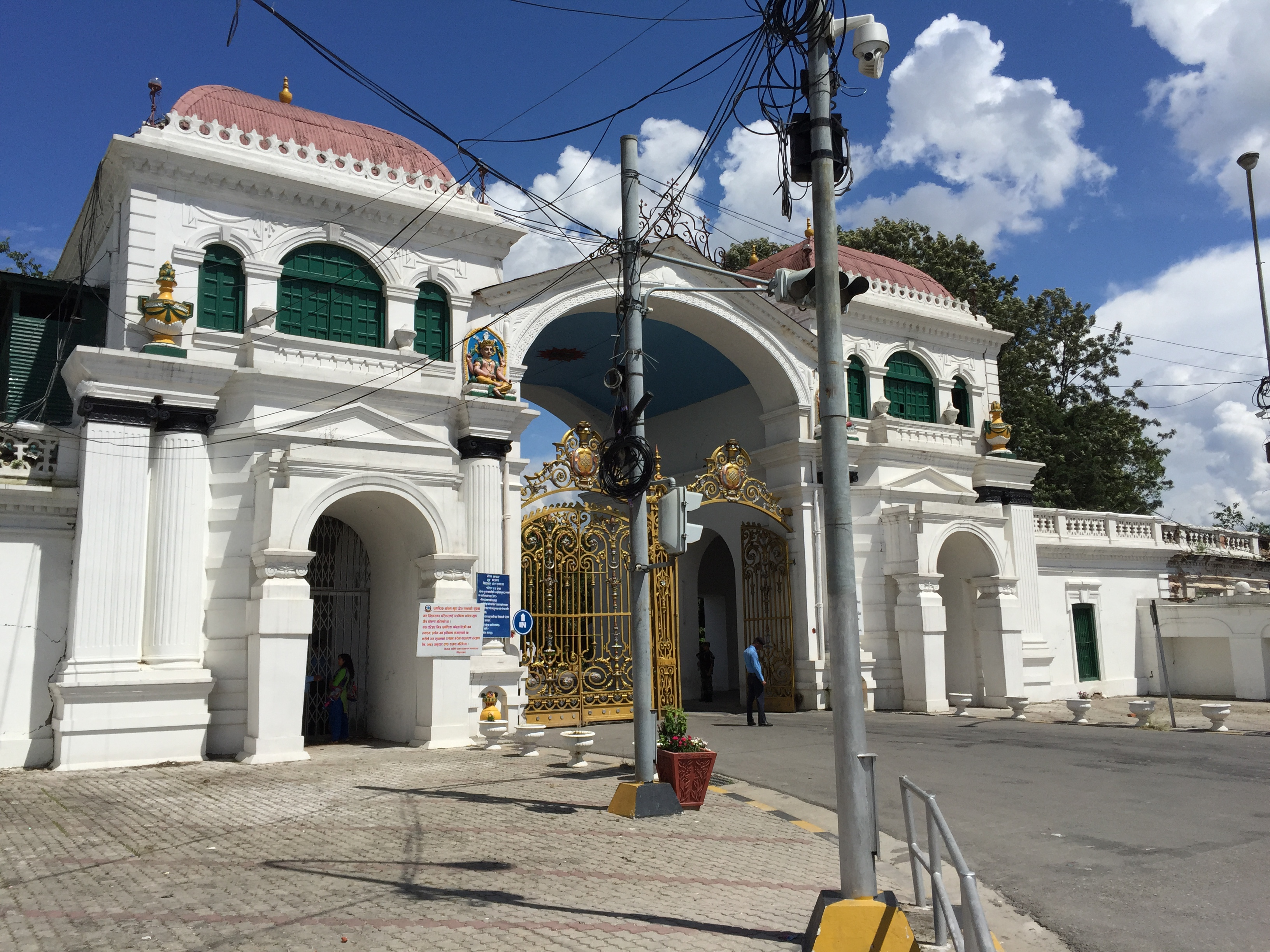 Main Gate of Singha Durbar